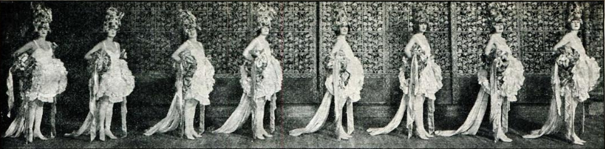 Greenwich Village Follies, from a 1923 publication. Photo by White.